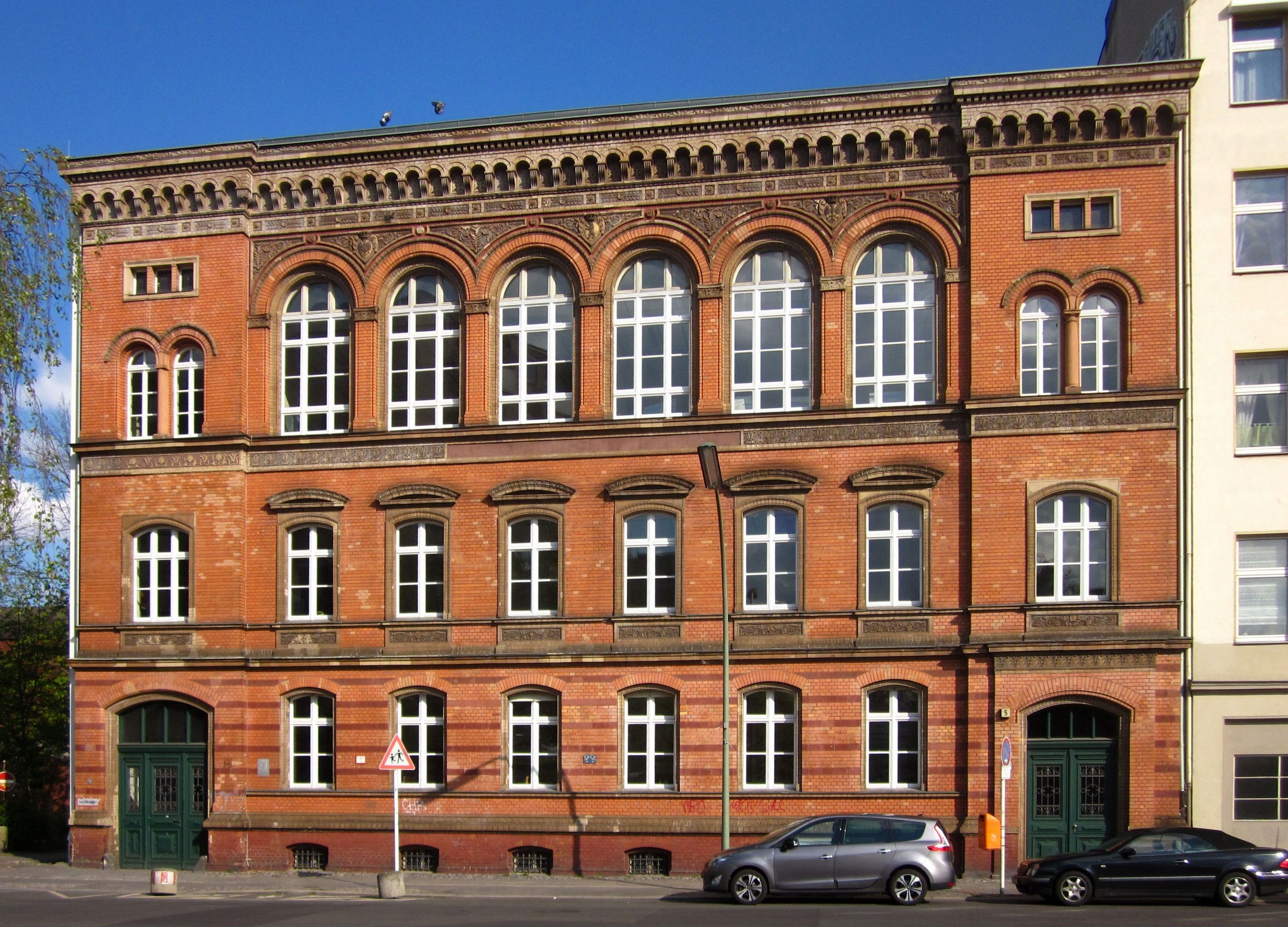 The former 1. Realschule (1st Middle School) at Alexandrinenstraße No. 5-6 in Berlin-Kreuzberg. The building was constructed from 1886 to 1887 to designs by Hermann Blankenstein and Karl Frobenius. It has been designated a historic landmark.